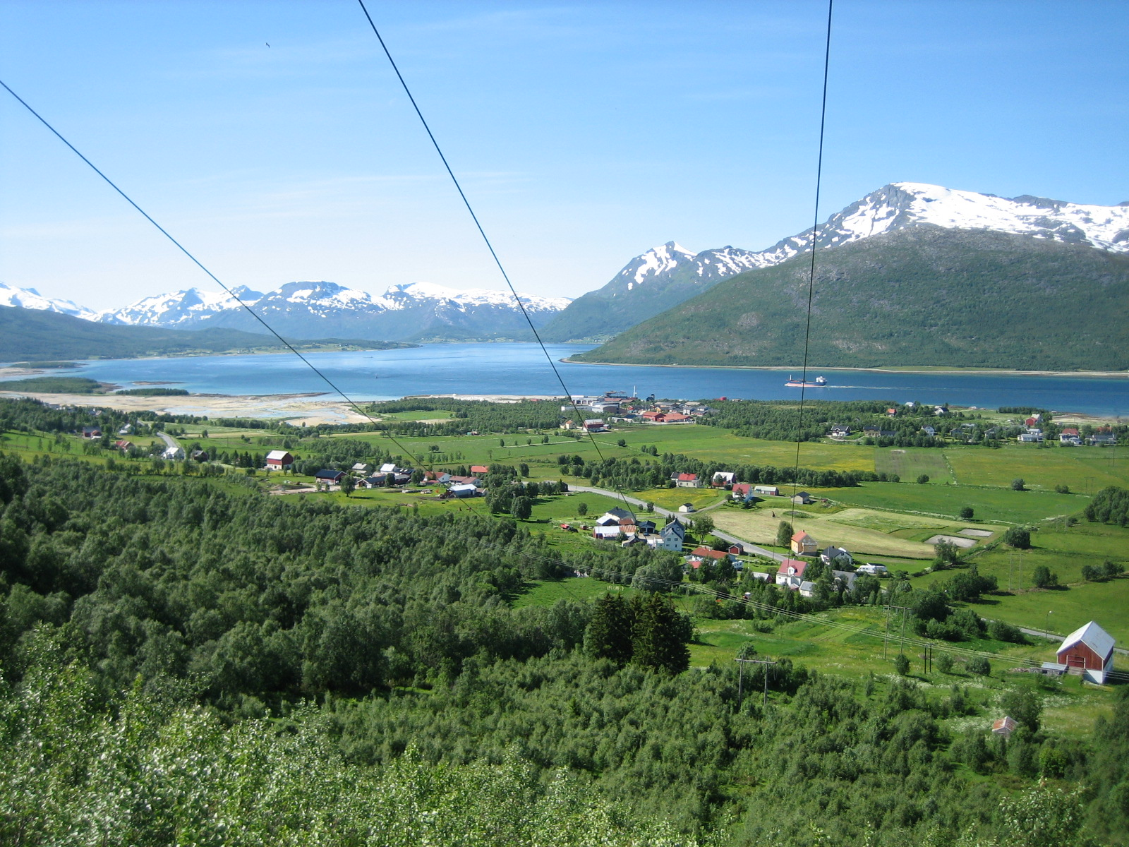 Fjelldal in summer. This picture was taken by myself, no rights reserved. BÃ¸rge Antonsen 13:09, 28 June 2005 (CET)